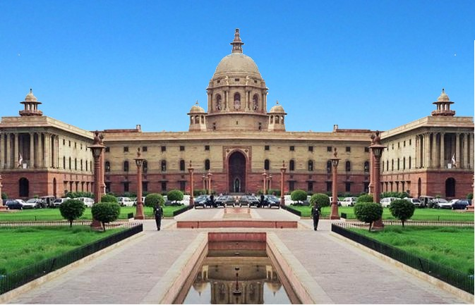 Uploaded to Wiki by user:nikkul Edited by Flickr user: Indianhilbilly Photo taken by Flickr user: Nimrod Bar